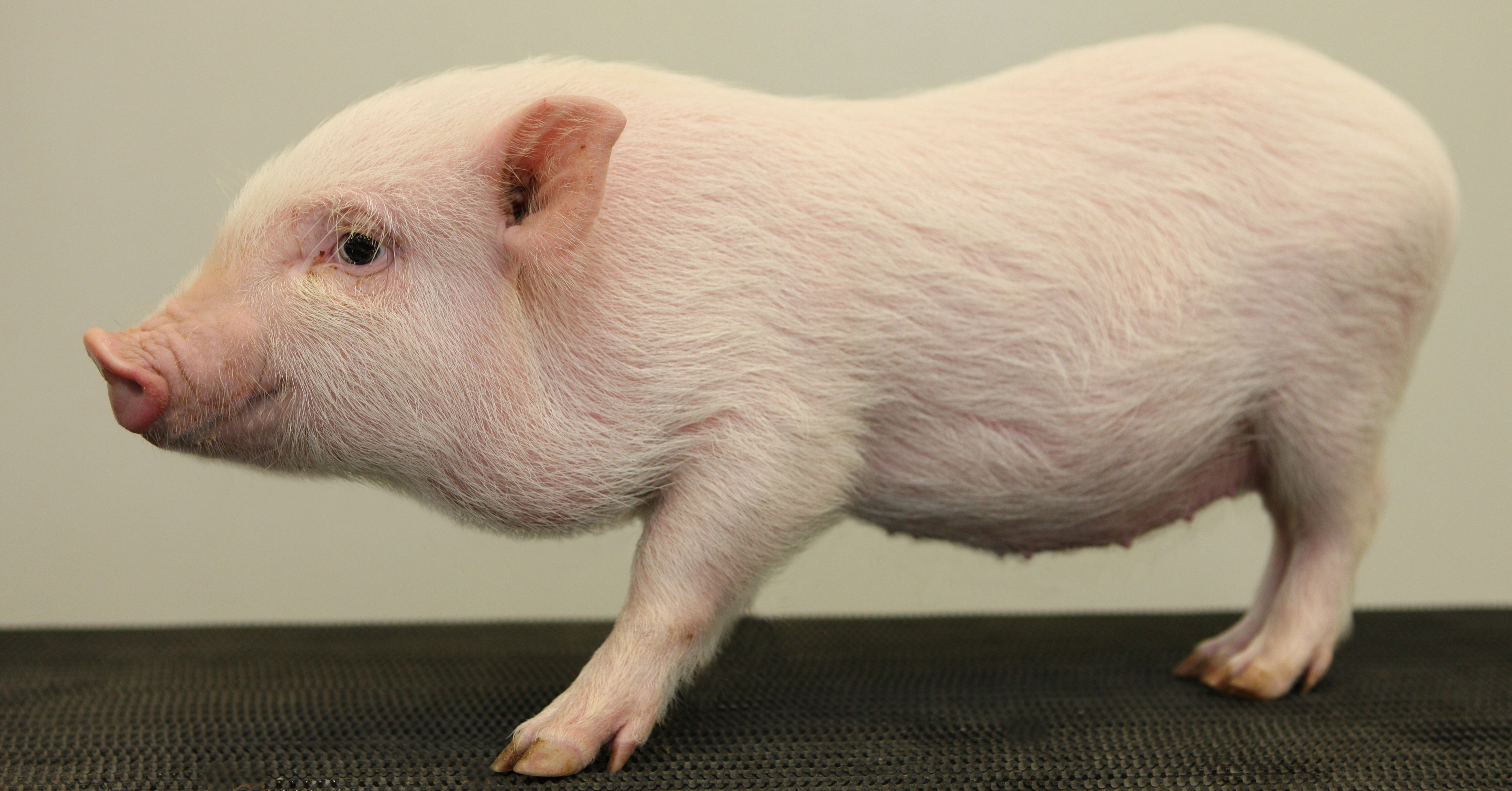 A young Göttingen Minipig